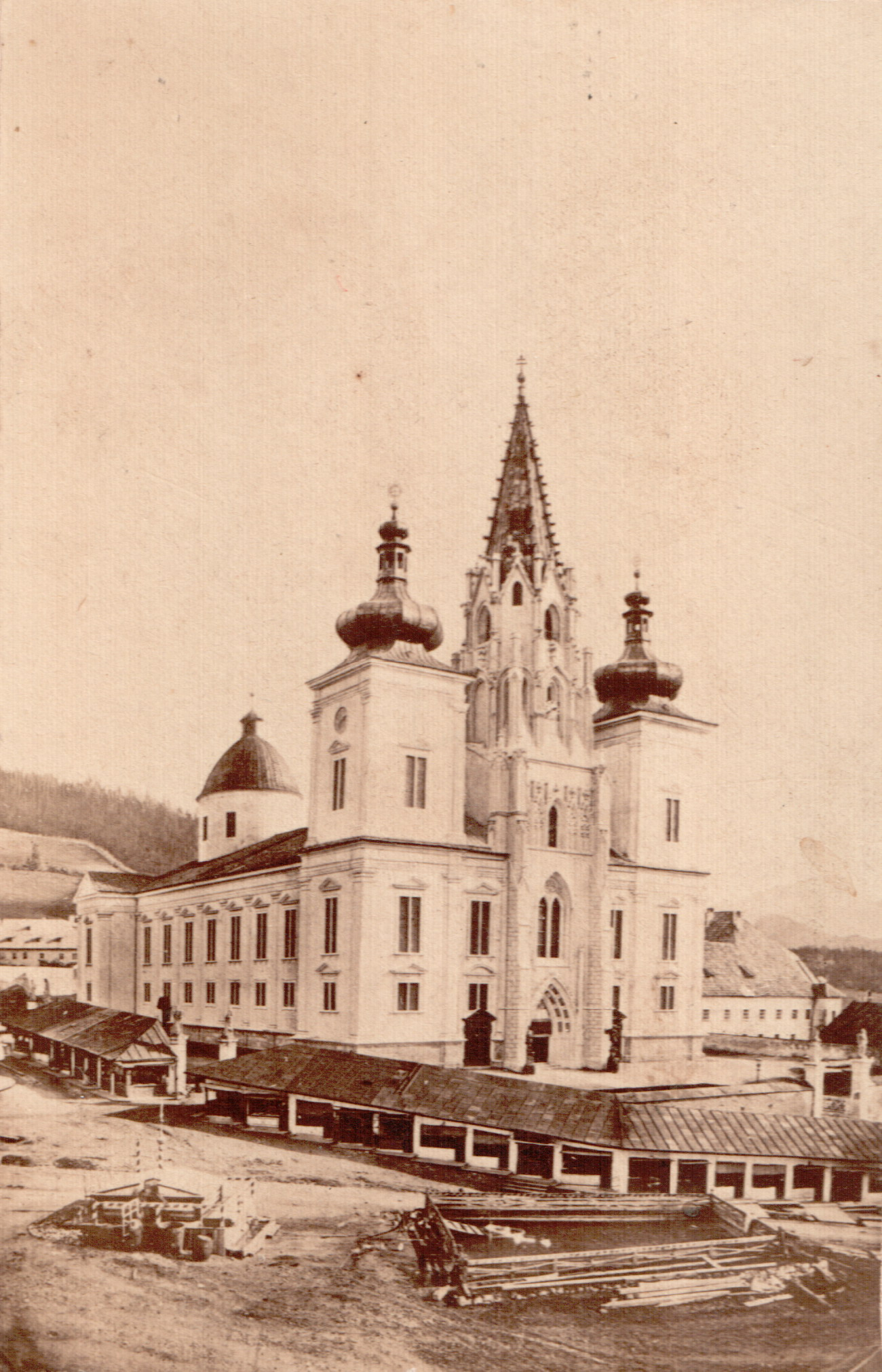 church of Mariazell Austria